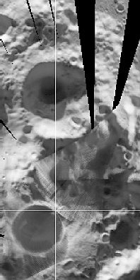 Close-up view of de Gerlache (top of photo) -- obtained using the Diviner instrument onboard the Lunar Reconnaissance Orbiter